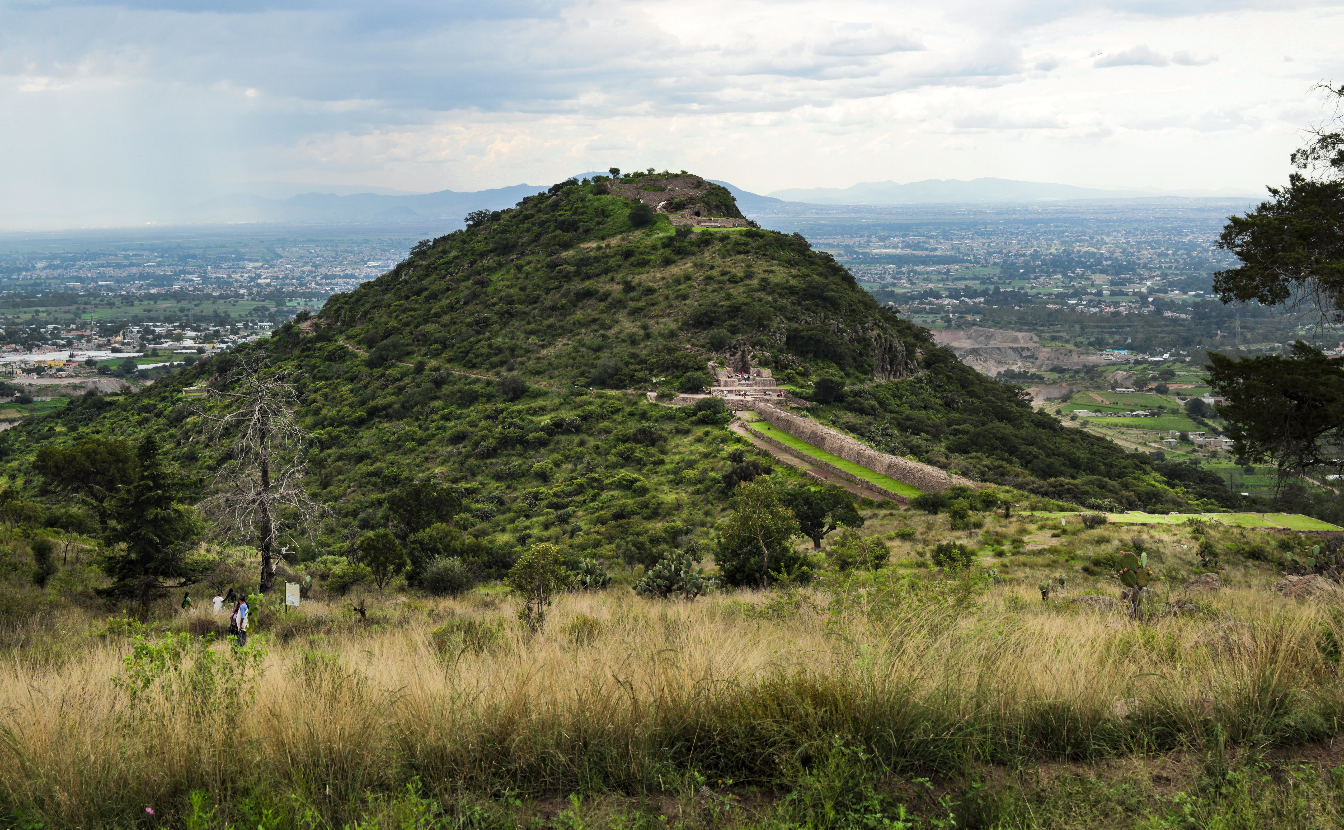 Hill of Tezcutzingo, Mexico Valley in the front.